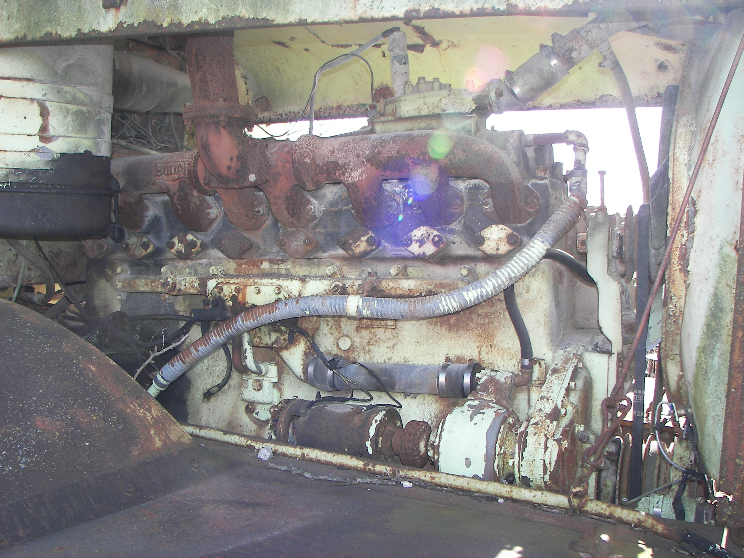 Passenger's side view of Buda 8-cylinder Diesel engine in old Euclid dump truck